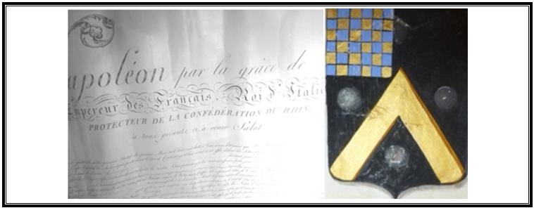 Lettres patentes et armoiries du Comte Bérenger (1767-1850)